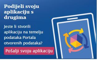 Screenshot from Open Data Portal